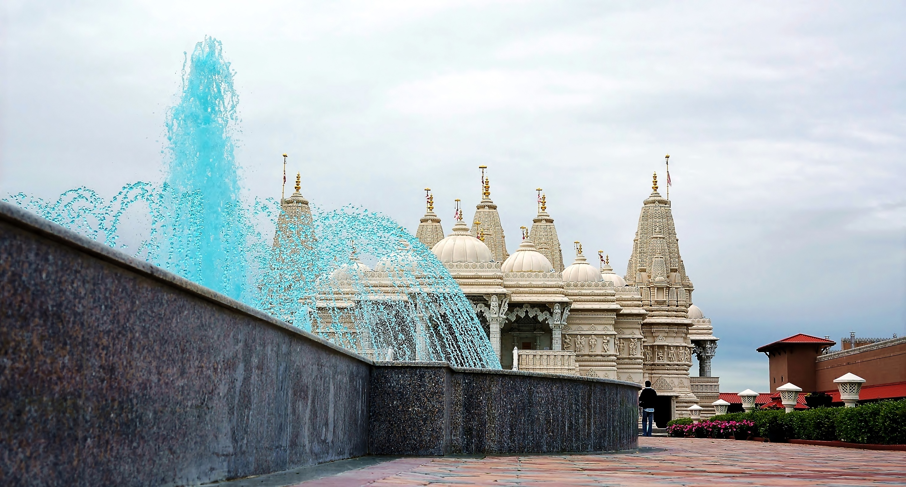 Temple